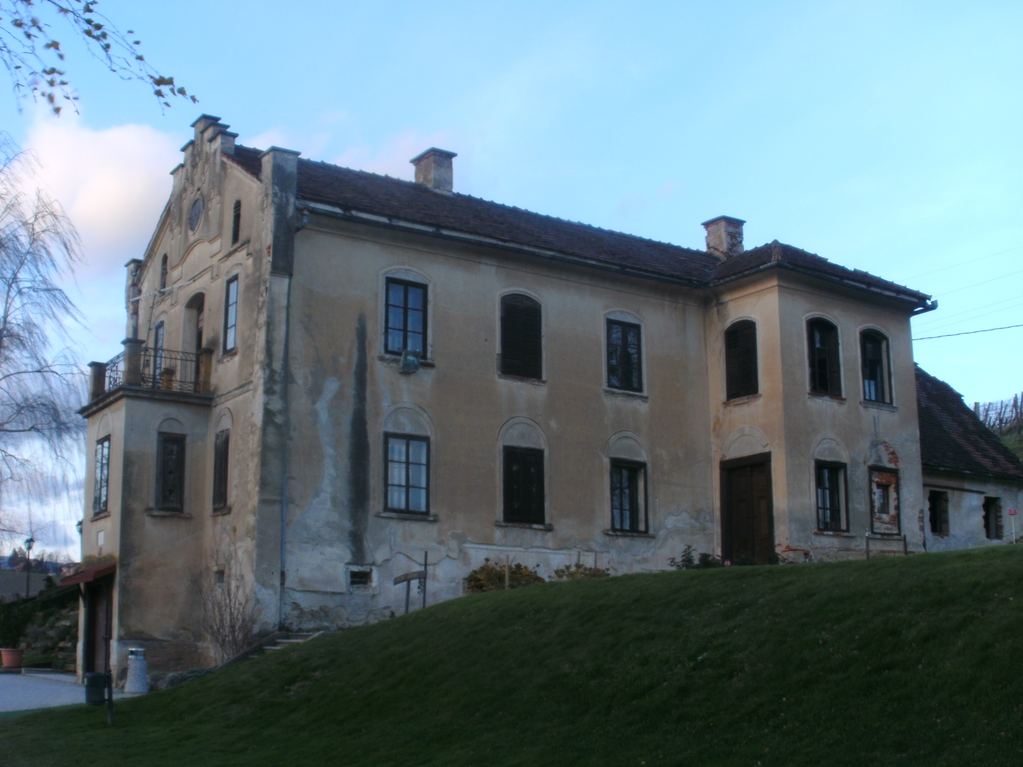 Jamne, Ogorevc, "golf house" in Škalce, Slovenske Konjice, Slovenia